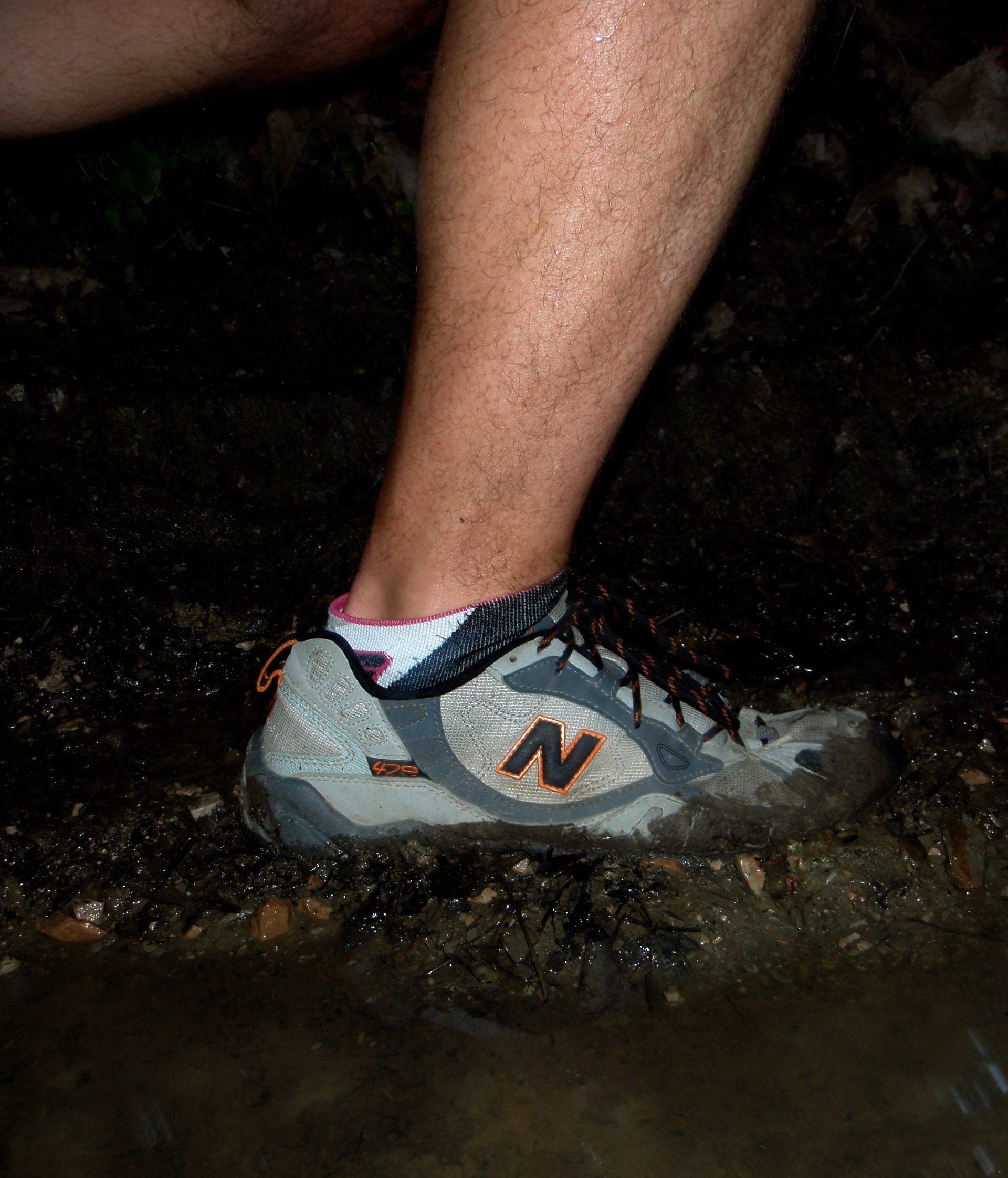 New Balance 470 Trail running.